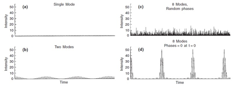 this is output of laser femto